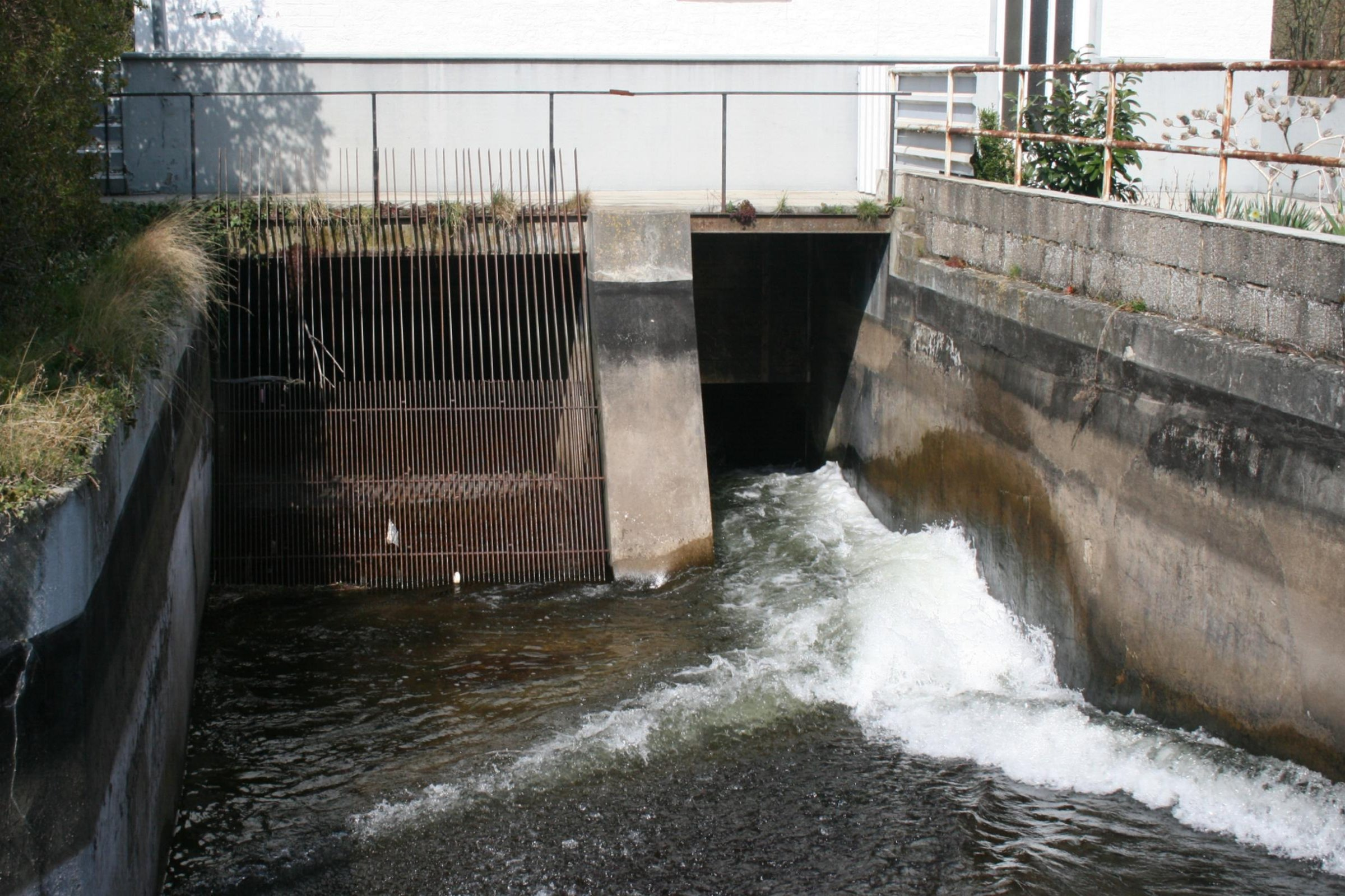 Cultural heritage monument No. 3/020 in Düren